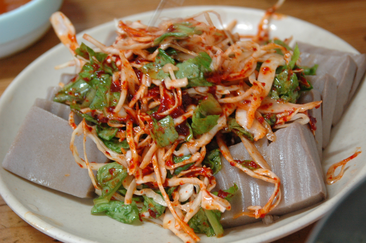 Memilmuk muchim, made with buckwheat jelly in Korean cuisine